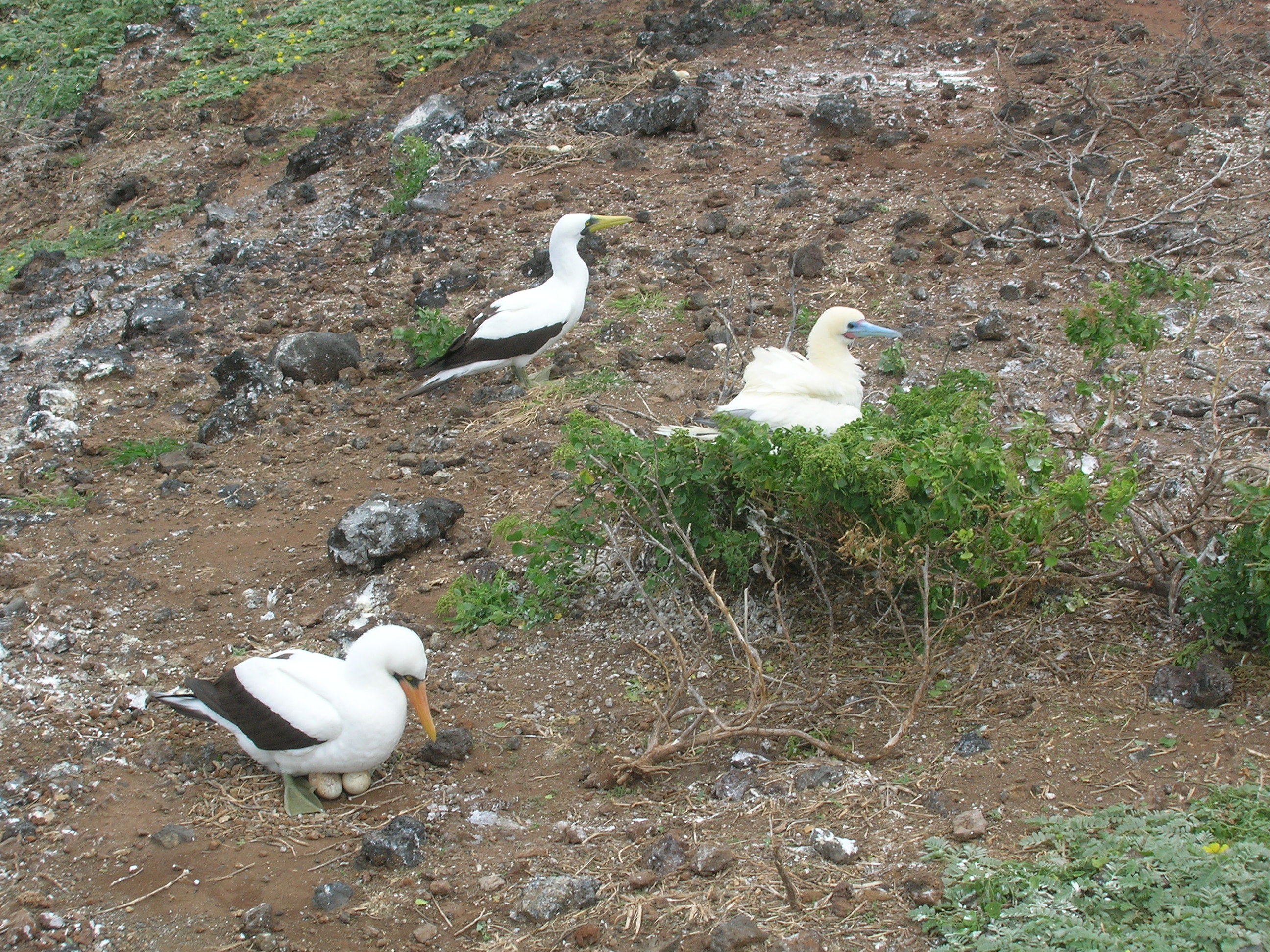 Chenopodium oahuense (with red foot masked and nazca boobies). Location: Oahu, Moku Manu